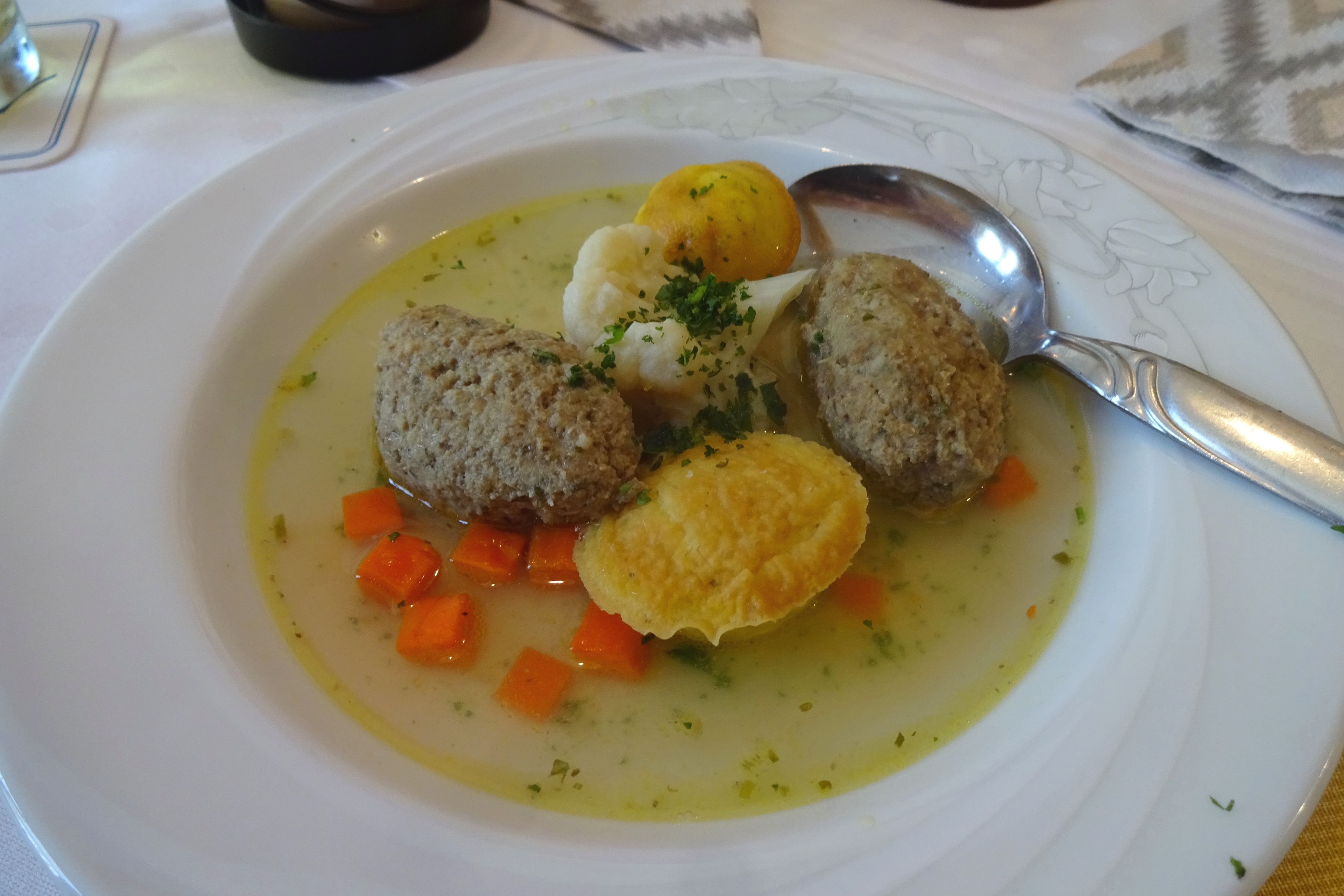 Wedding soup, broth with different ingredients: liver dumplings, egg, cauliflower and carrots . Photographed at the Gasthaus Metzgerei Gebhardt in Ahornberg, Konradsreuth.